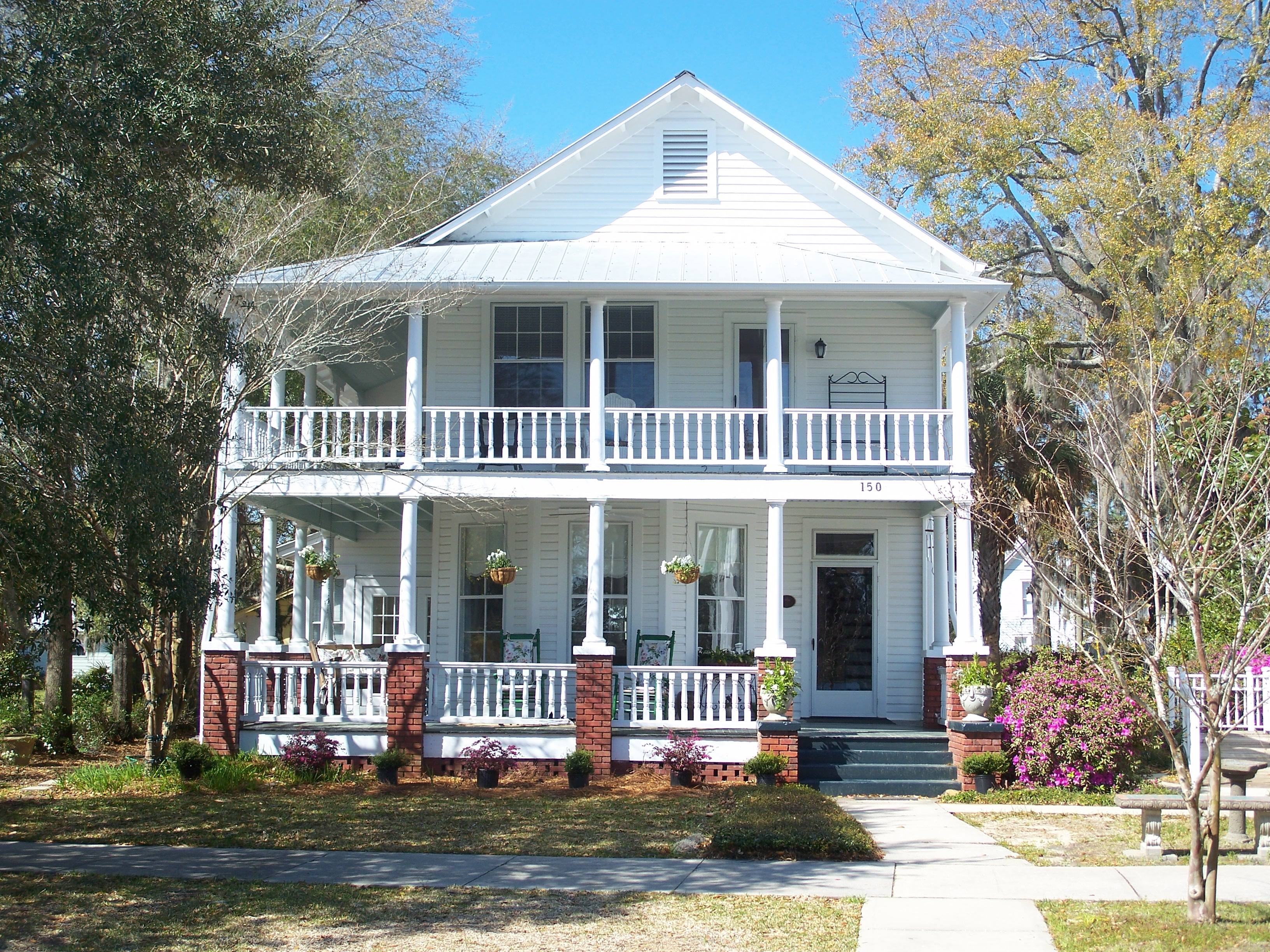 A house in the DeFuniak Springs Historic District in DeFuniak Springs, Florida. It is on Circle Drive, the road that goes around Lake DeFuniak, at the heart of the district.